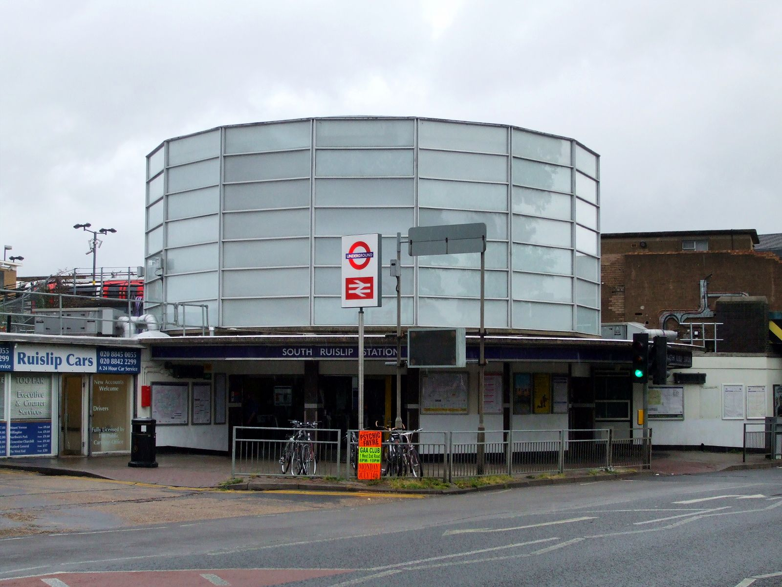 South Ruislip station, served by both London Underground and Chiltern Railways